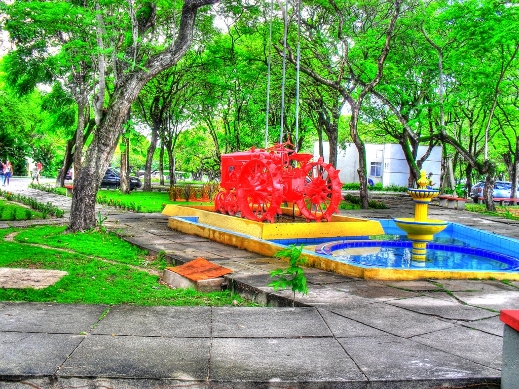 Fish Engeneering Department - Federal University of Ceará